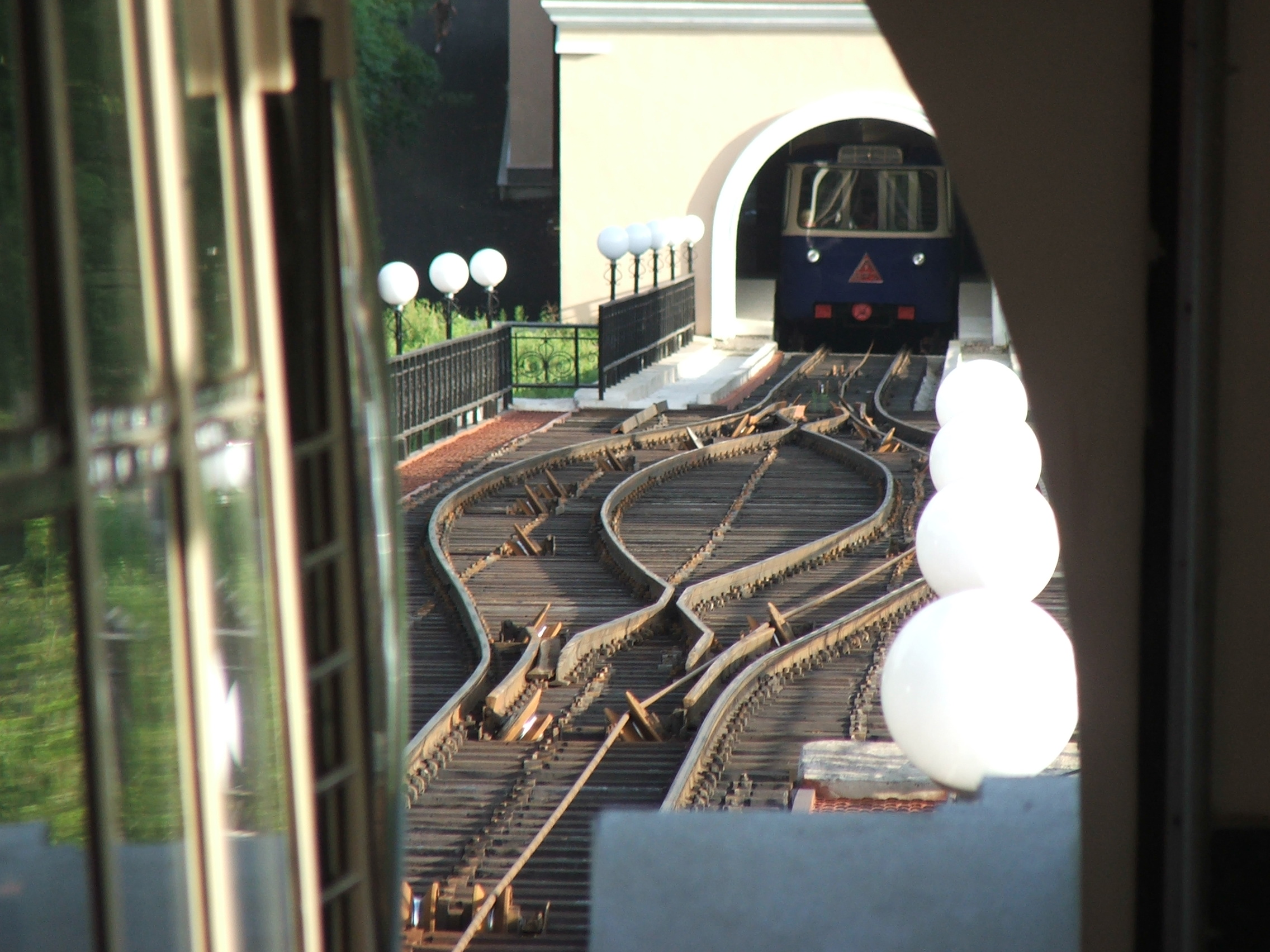 Siding of the Vladivostok funicular